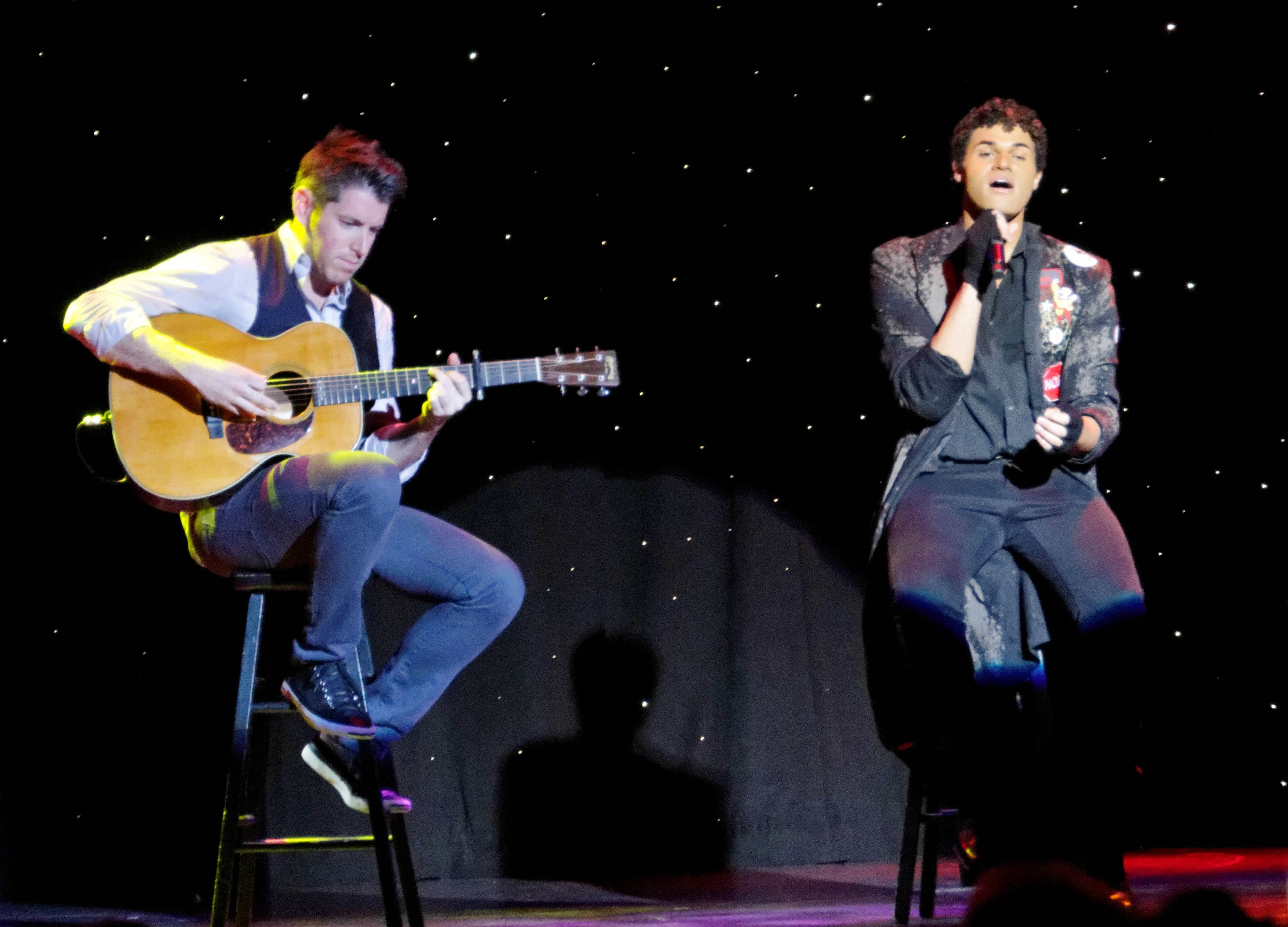 American Idol season one finalist Ejay Day, performing on the cruise liner MS Veendam in 2012, alongside unidentified guitar player.